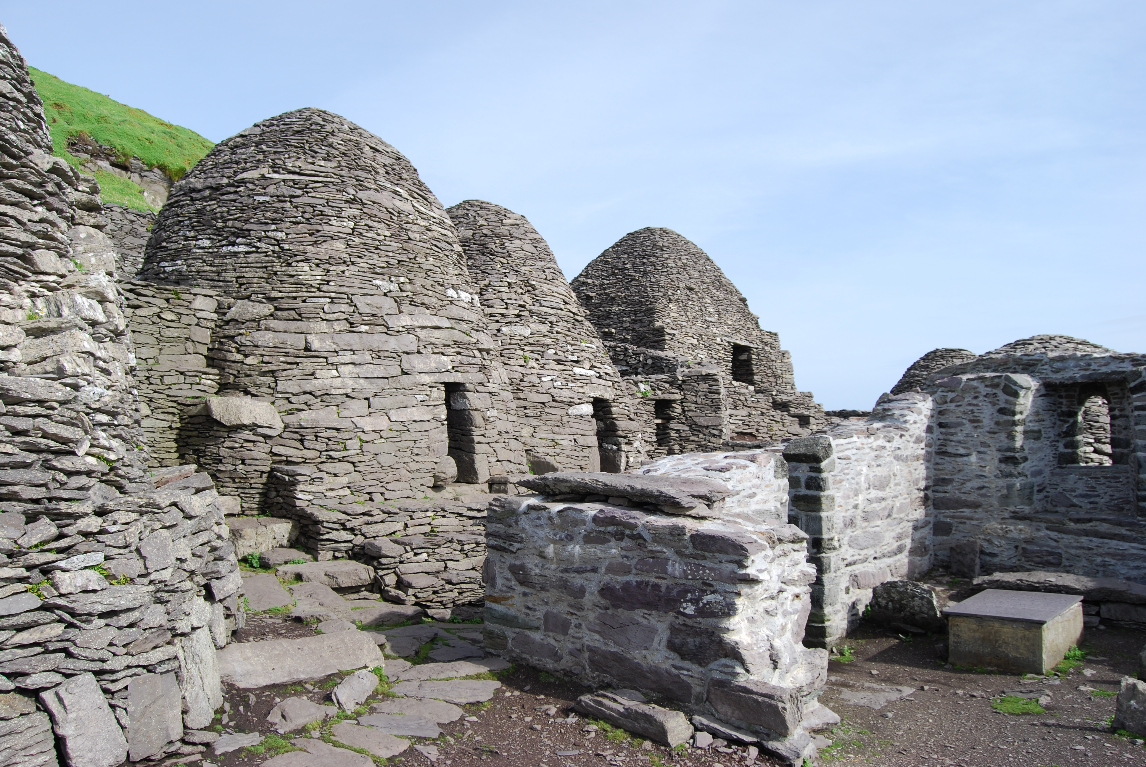 Skellig Michael